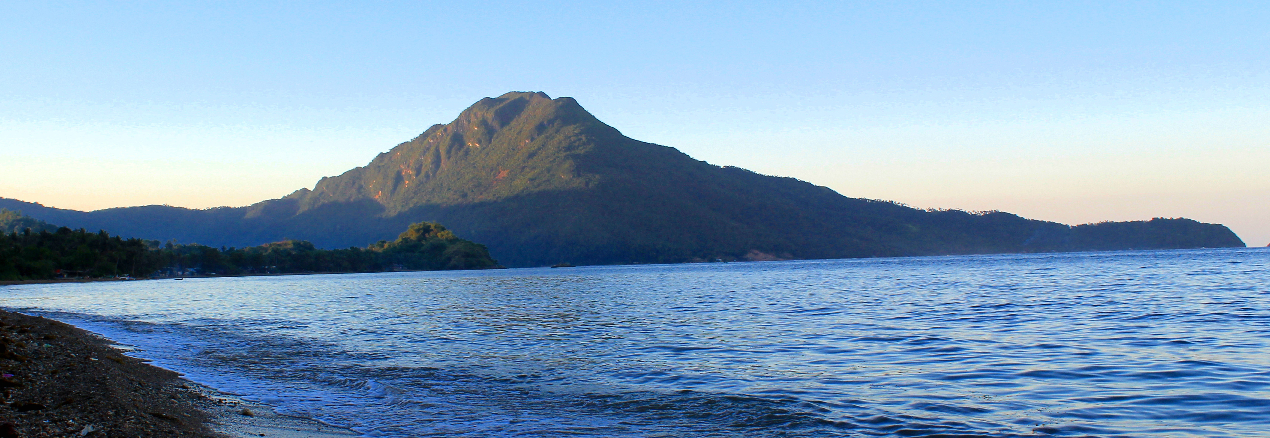 The second highest mountain in the province of Romblon.